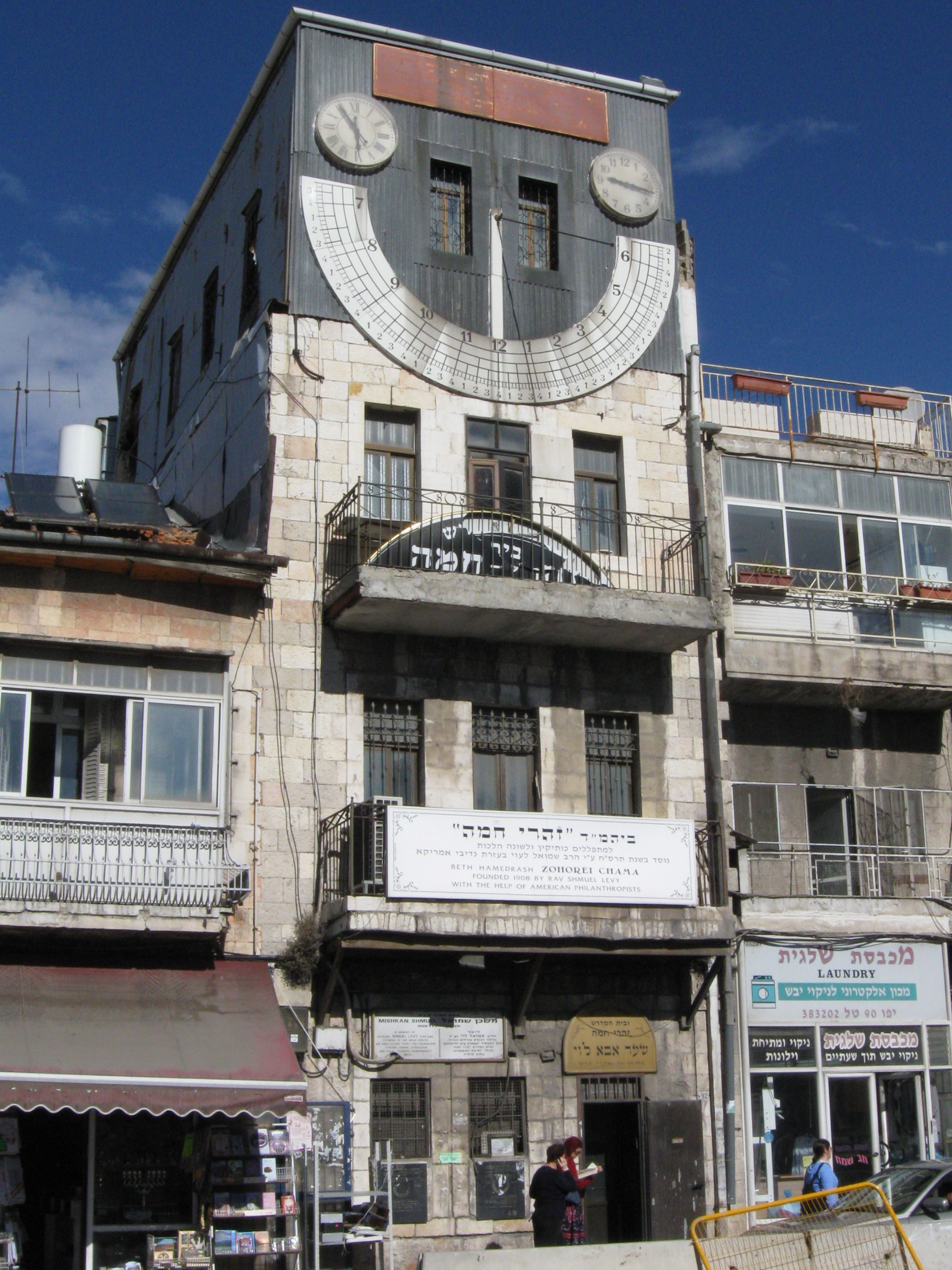 Facade of Zoharei Chama Synagogue, 92 Jaffa Road, Jerusalem, Israel.